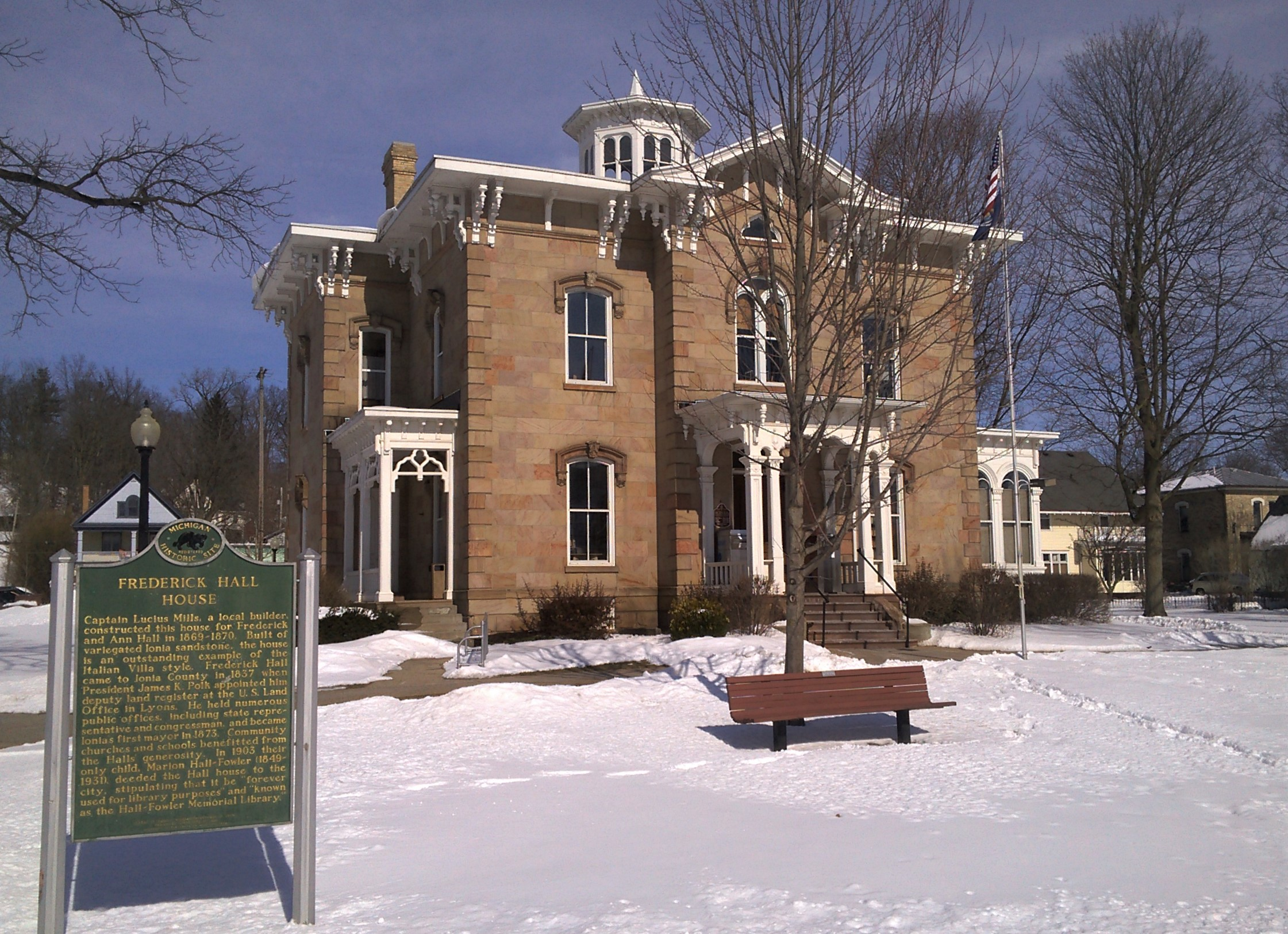 Frederick Hall House Historical Marker